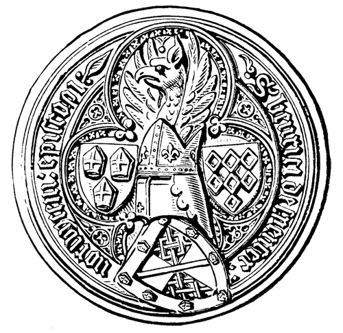 Seal of Henry le Despenser (c. 1341–1406), Bishop of Norwich, showing the arms of Despenser with bordure of bishop's mitres (in base), the See of Norwich (dexter) and de Quincy/Ferrers of Groby (maternal arms) (sinister): s(igillum) henrici despencer norwyceni episcopi ("seal of Henry Despencer Bishop of Norwich")